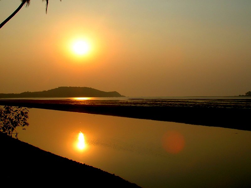 Fort Chapora, view from Badem Church across Chapora River Delta, Image by myself (Dominik Hundhammer, 2003)